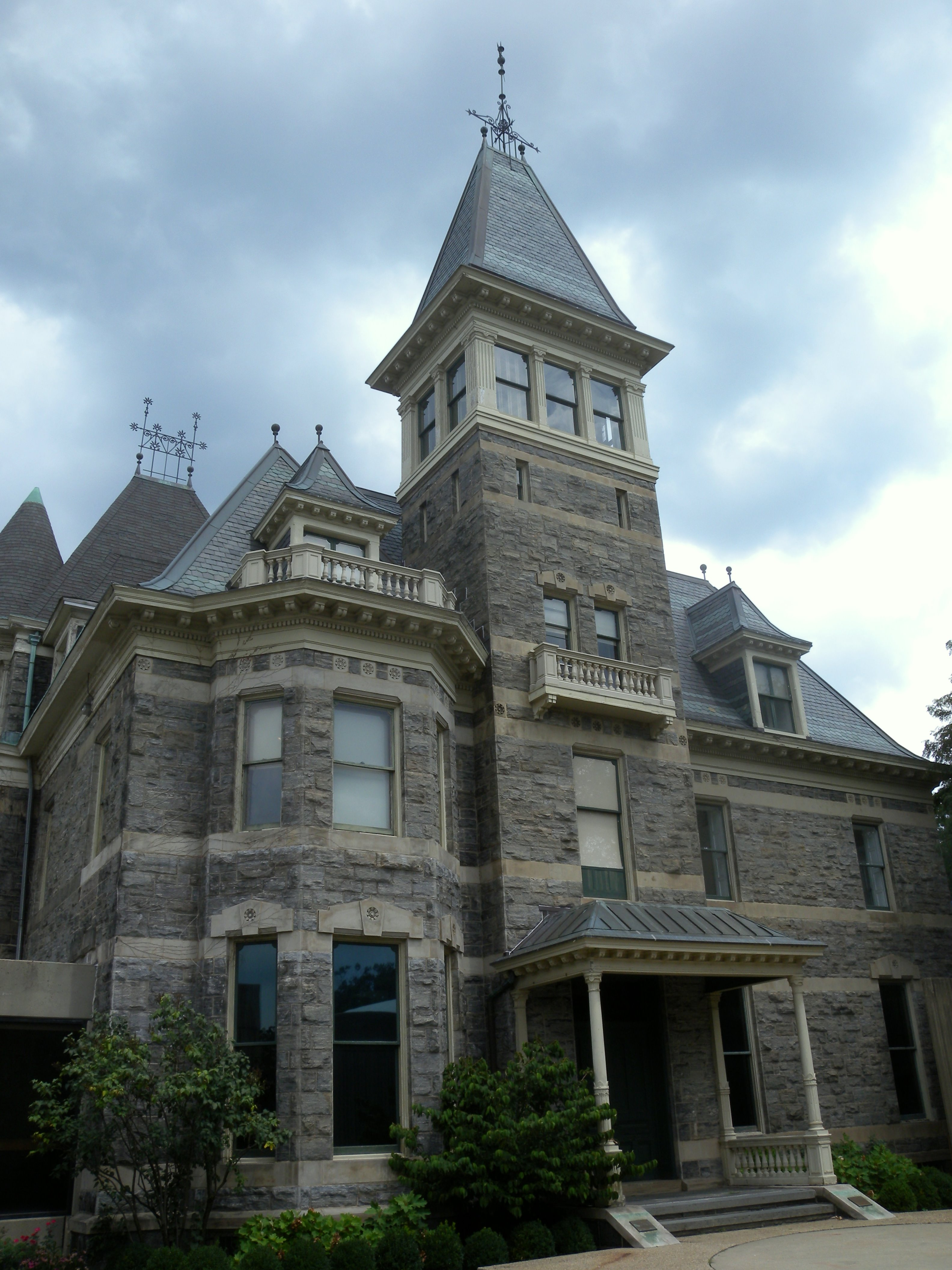 Looking northeast from Hudson River Museum courtyard, at Glenview Mansion, once home of John Bond Trevor on a partly sunny midday.